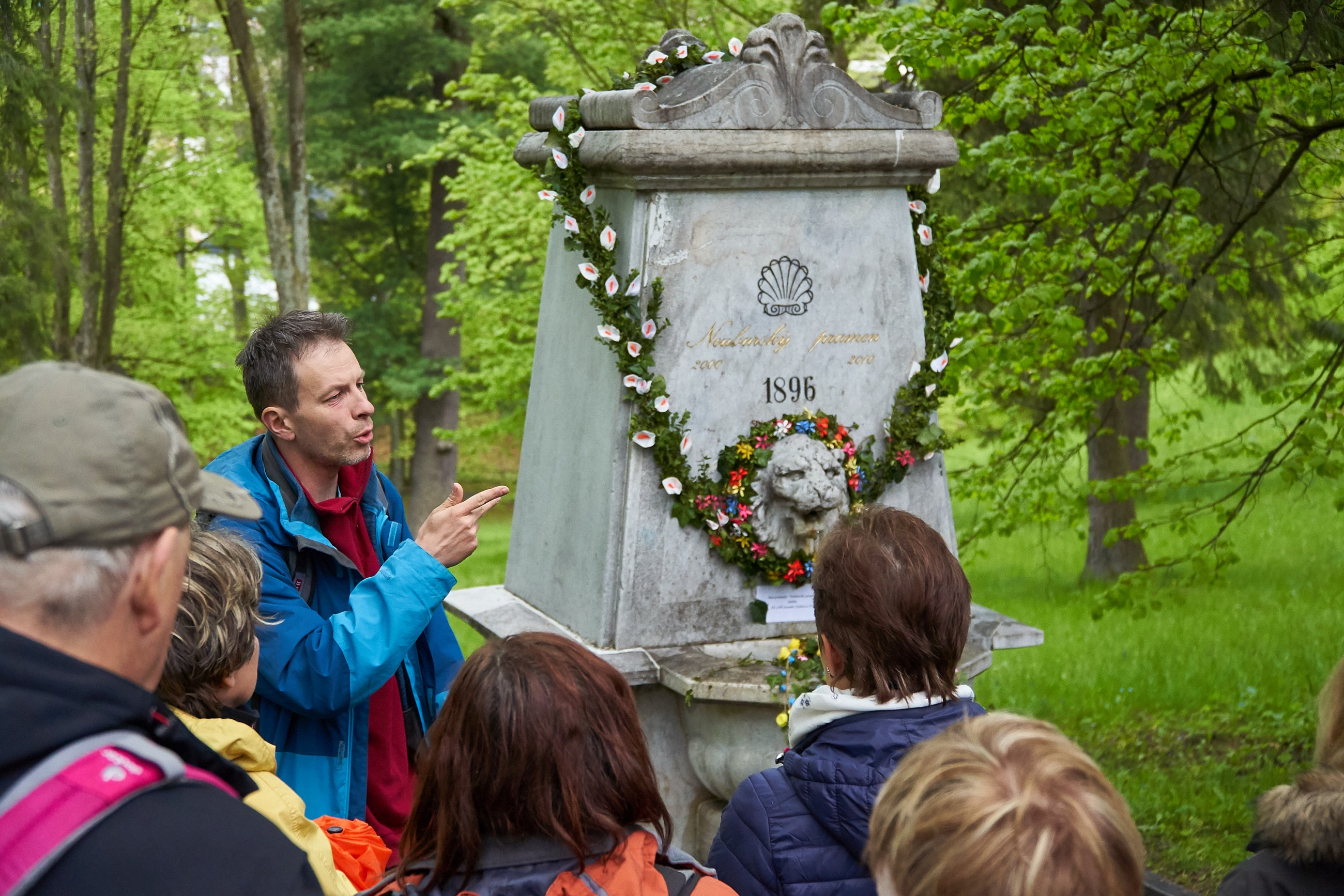 Well's day